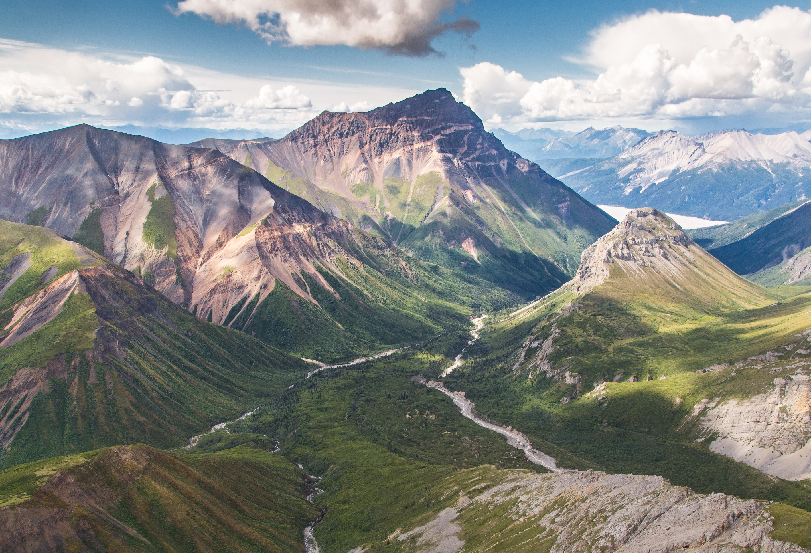 Headwaters of Dan Creek looking out at Williams Peak and the Nazina River, Wrangell Mountains